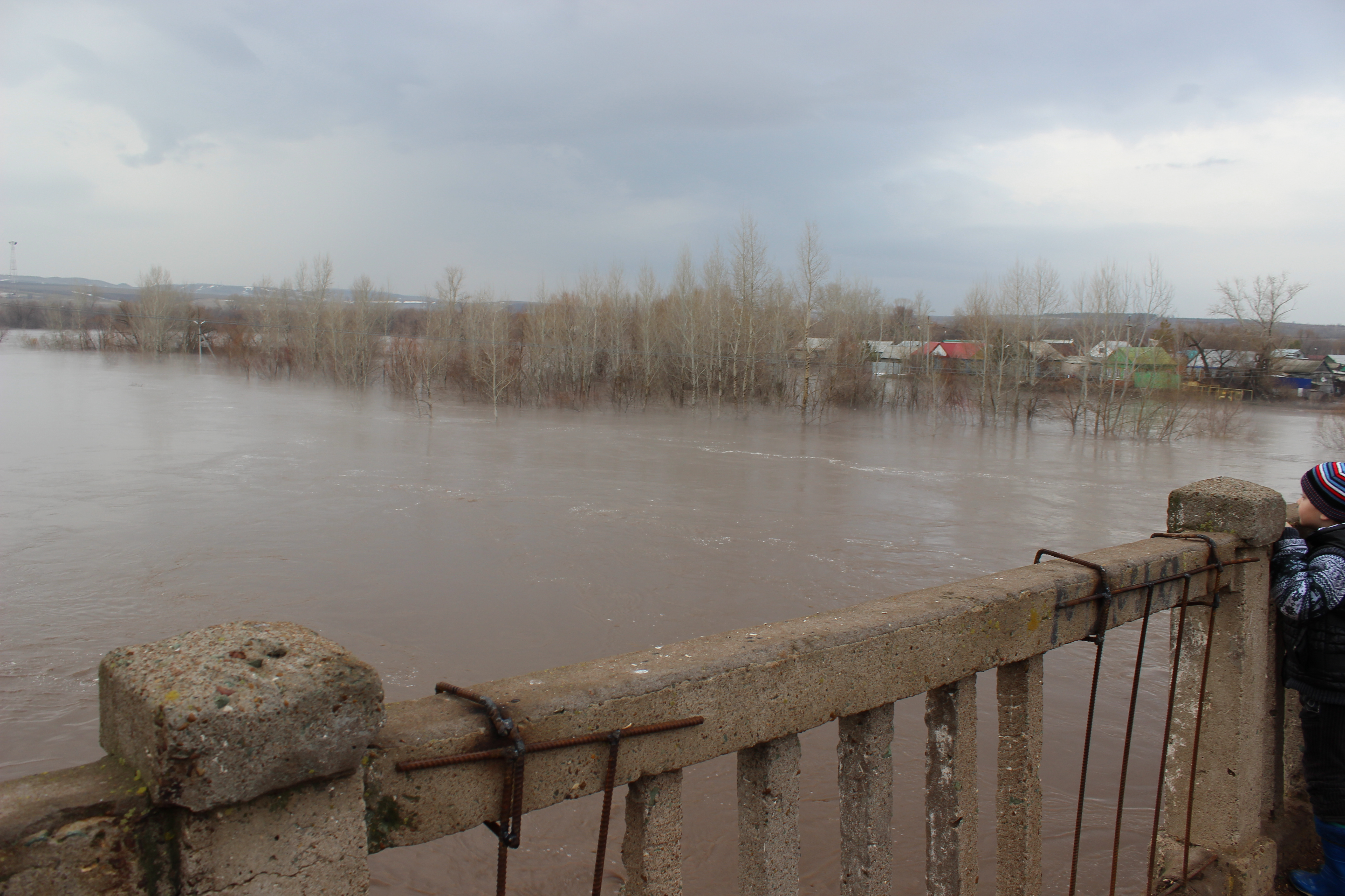 Sorochinsk. Old Bridge. The flood of 2013.